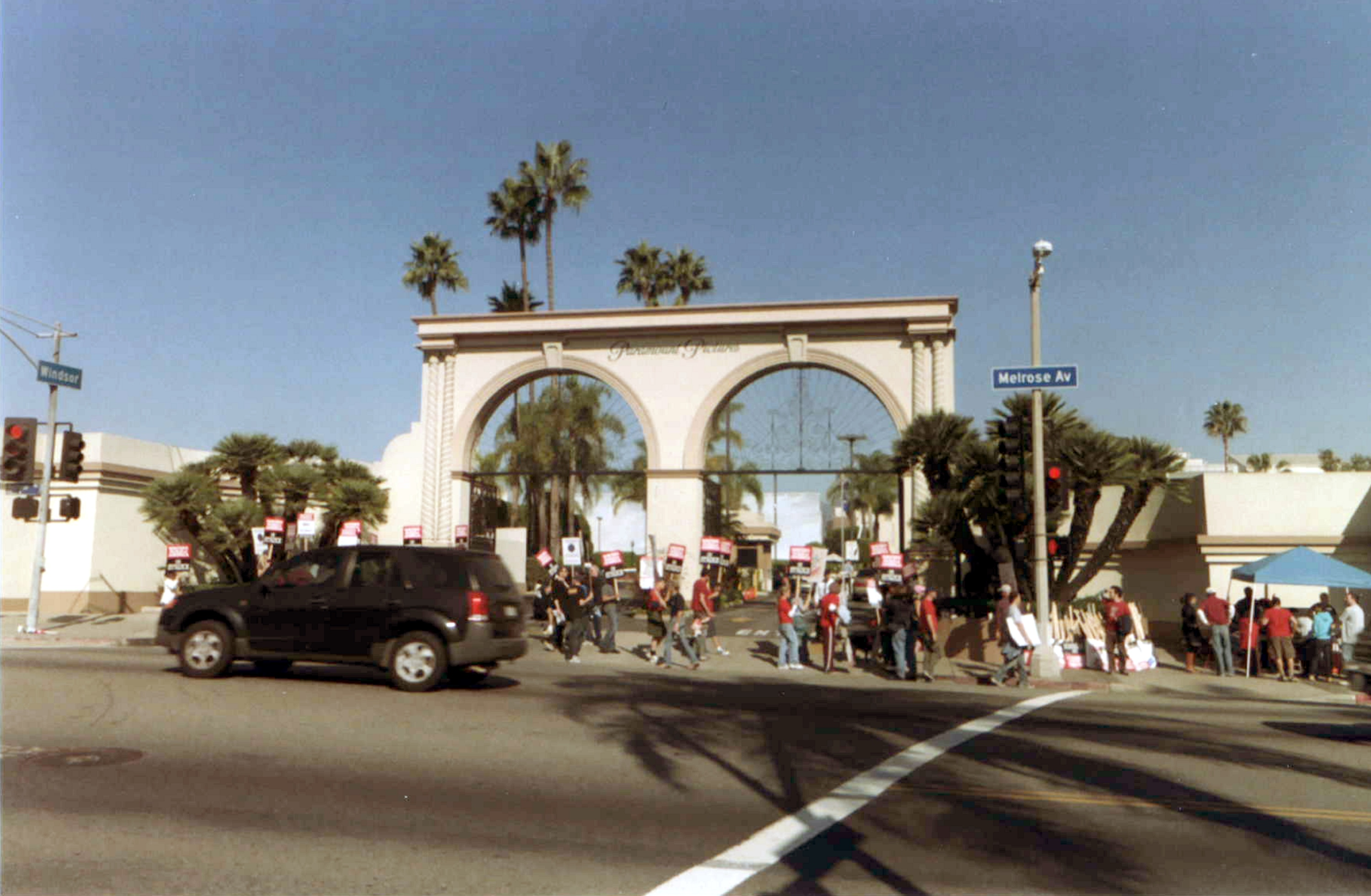 Paramount Studios front gate in Hollywood, WGA strike Nov 12, 2007